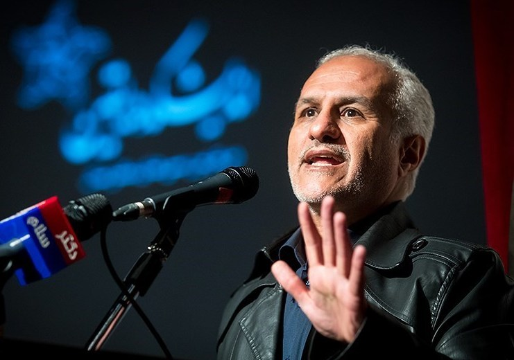 Speech of Hassan Abbasi in Fifth anniversary of Mostafa Ahmadi Roshan